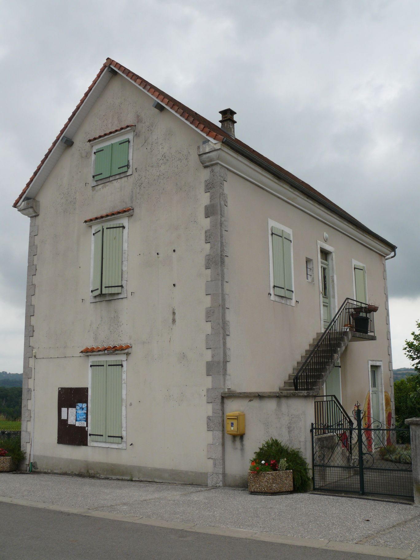 The primary school of Uzan (Pyrénées-Atlantiques, France).